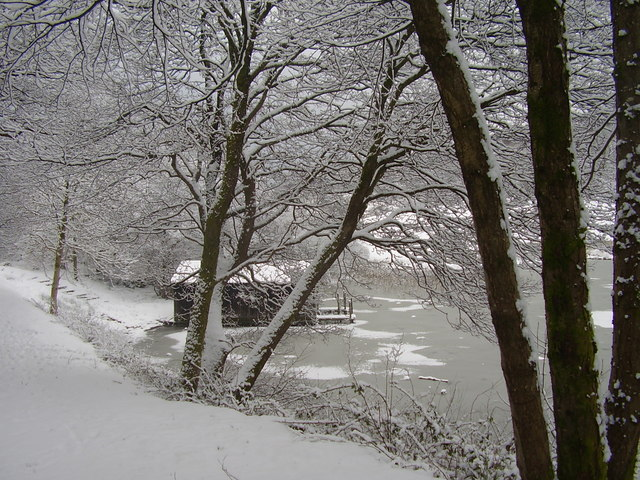 Loch Loskin Boathouse Loch Loskin after heavy fall of snow